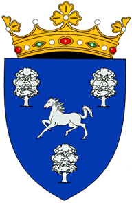 Nisporeni rajon coa